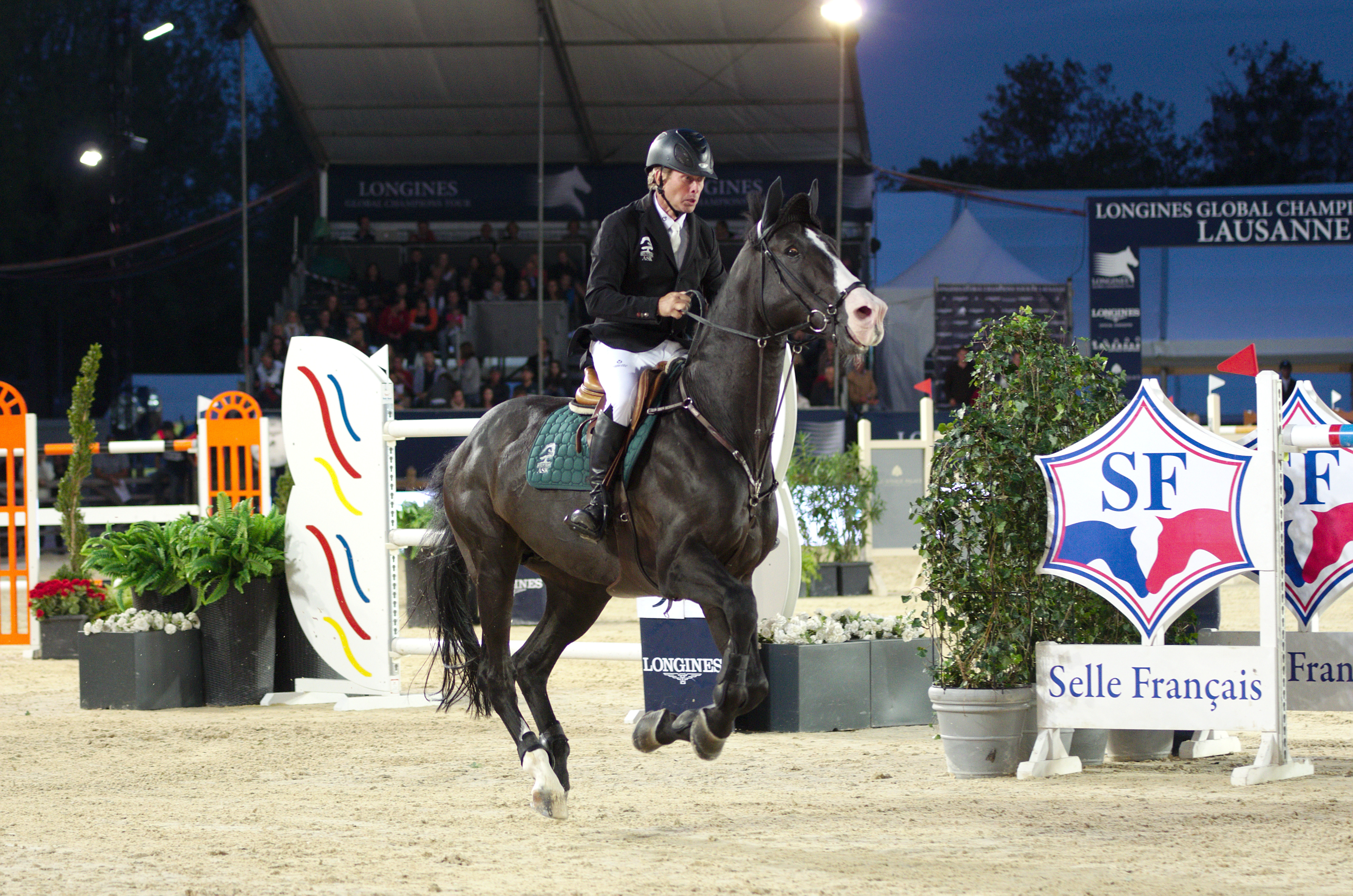 2013 Longines Global Champions - Lausanne - 14-09-2013 - Rolf-Goran Bengtsson et Quintero Ask